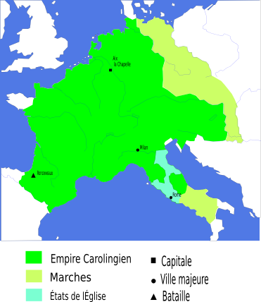 Map of the Carolingian Empire